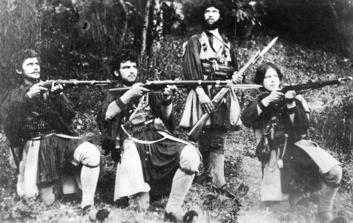 Cheta of Cola Nicea, aromanian revolutionary from IMARO